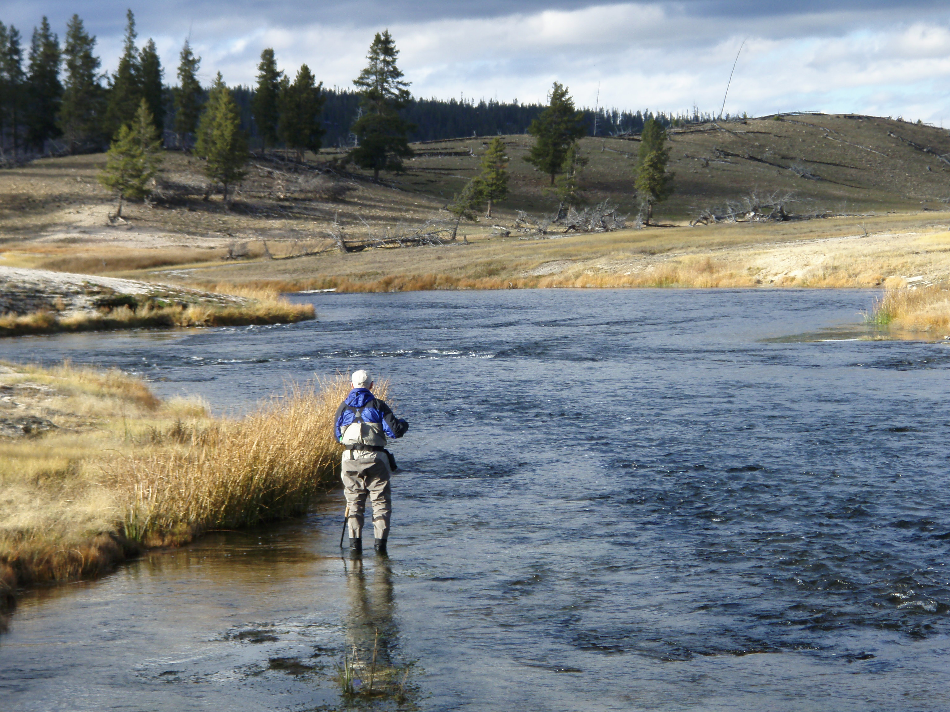 Fly fisherman above Ojo Calenti Bend on the Firehole River October 2007